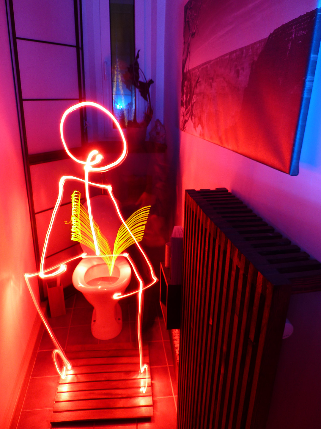 Stick-figure on toilet, while reading a book